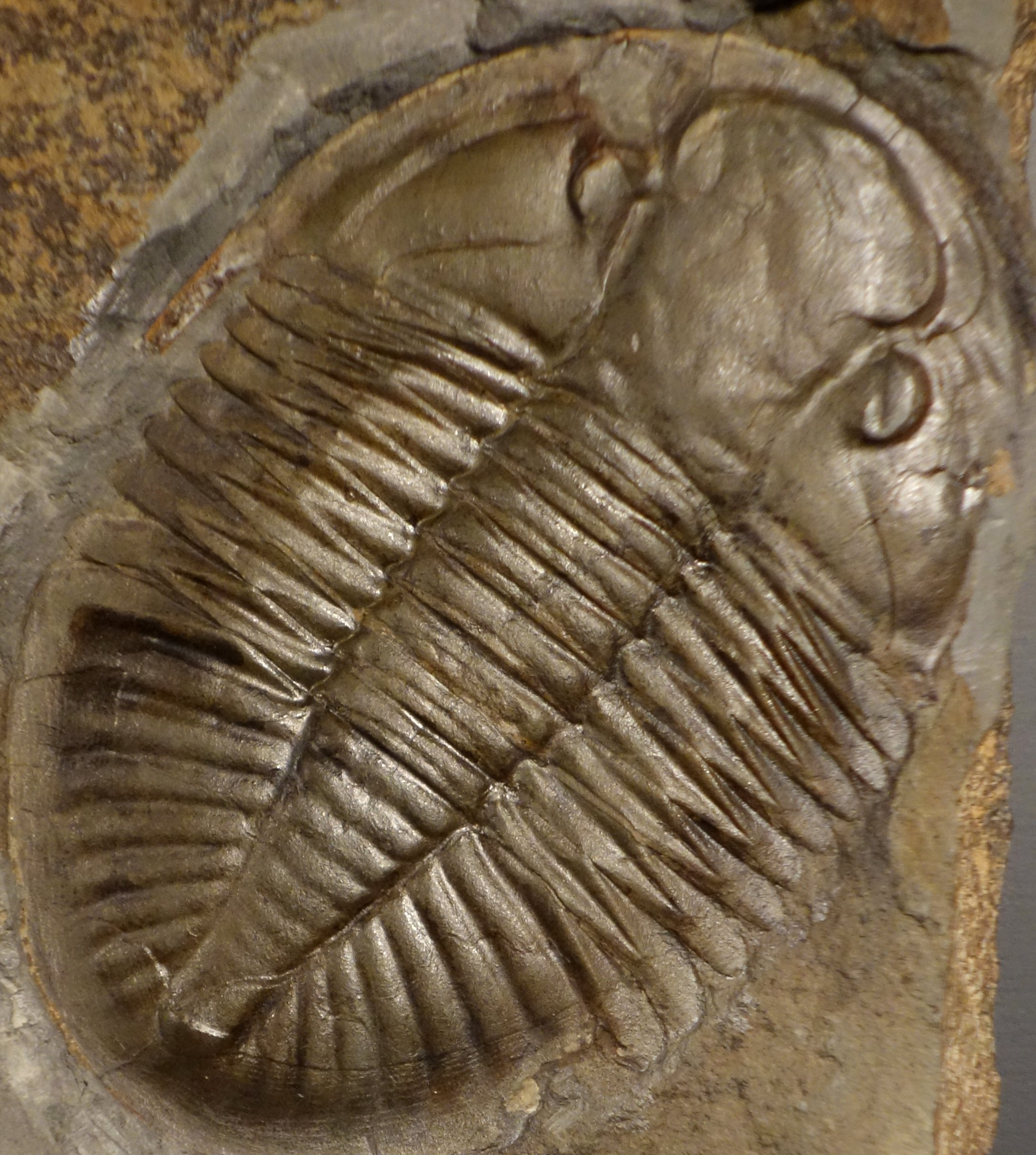 Crop of file in filename